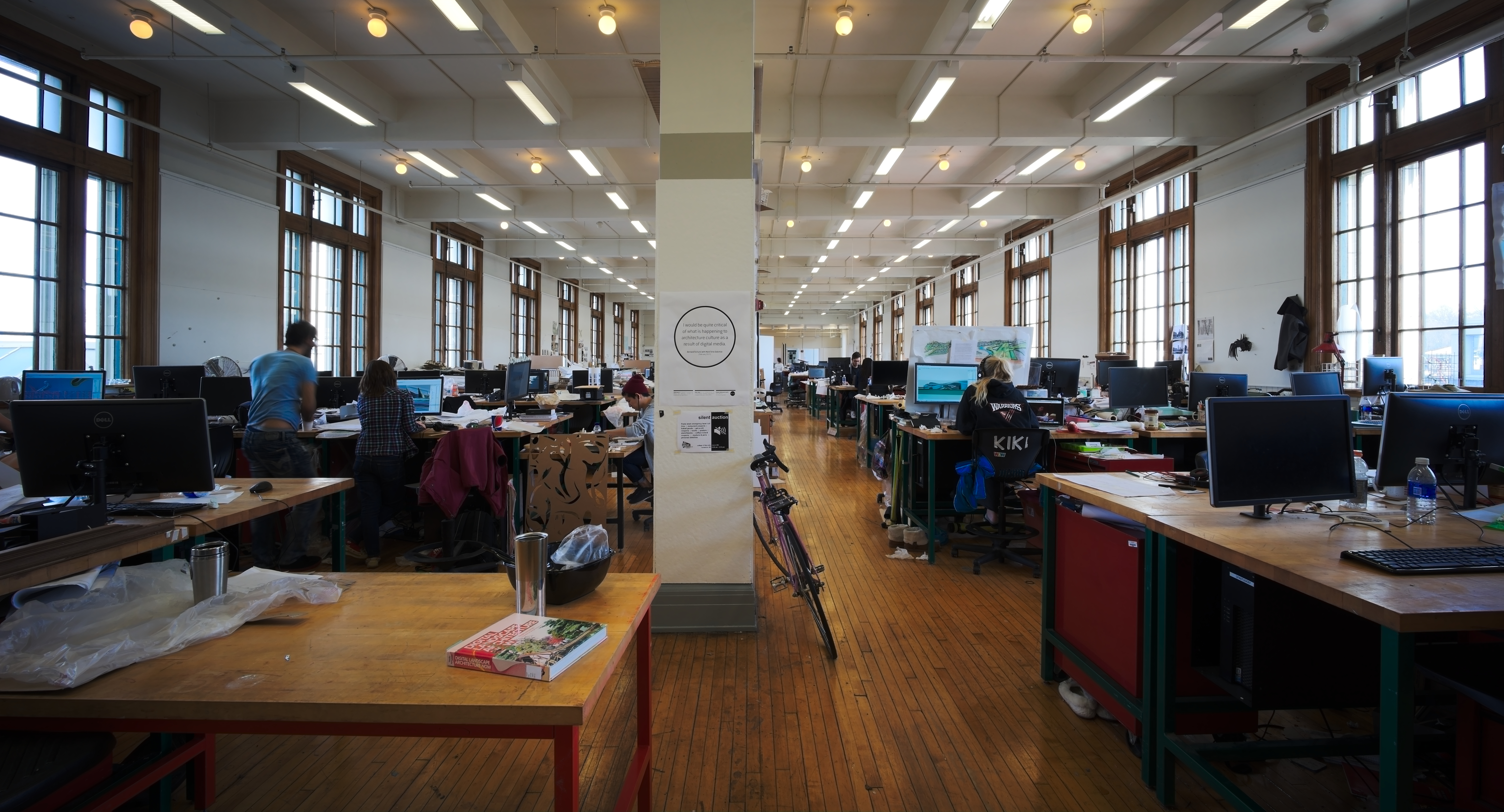 A classroom in the Carnegie Mellon College of Fine Arts. The building was built in 1916.